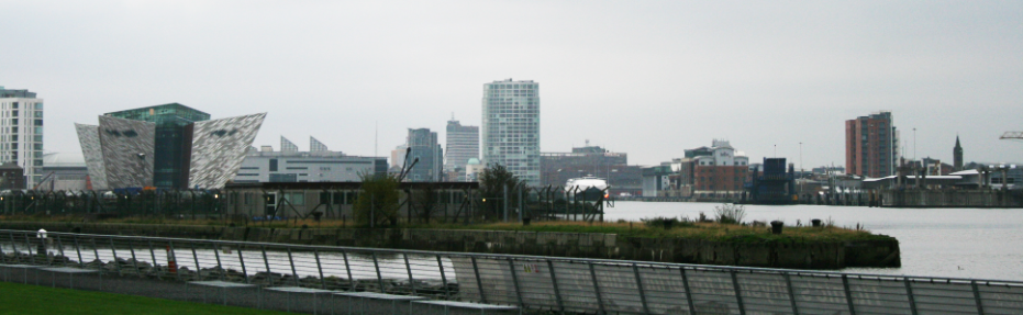 A photograph of Belfast City.